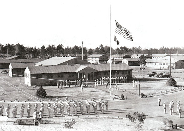 Retreat formation at Moody Army Airfield, Georgia, 1943